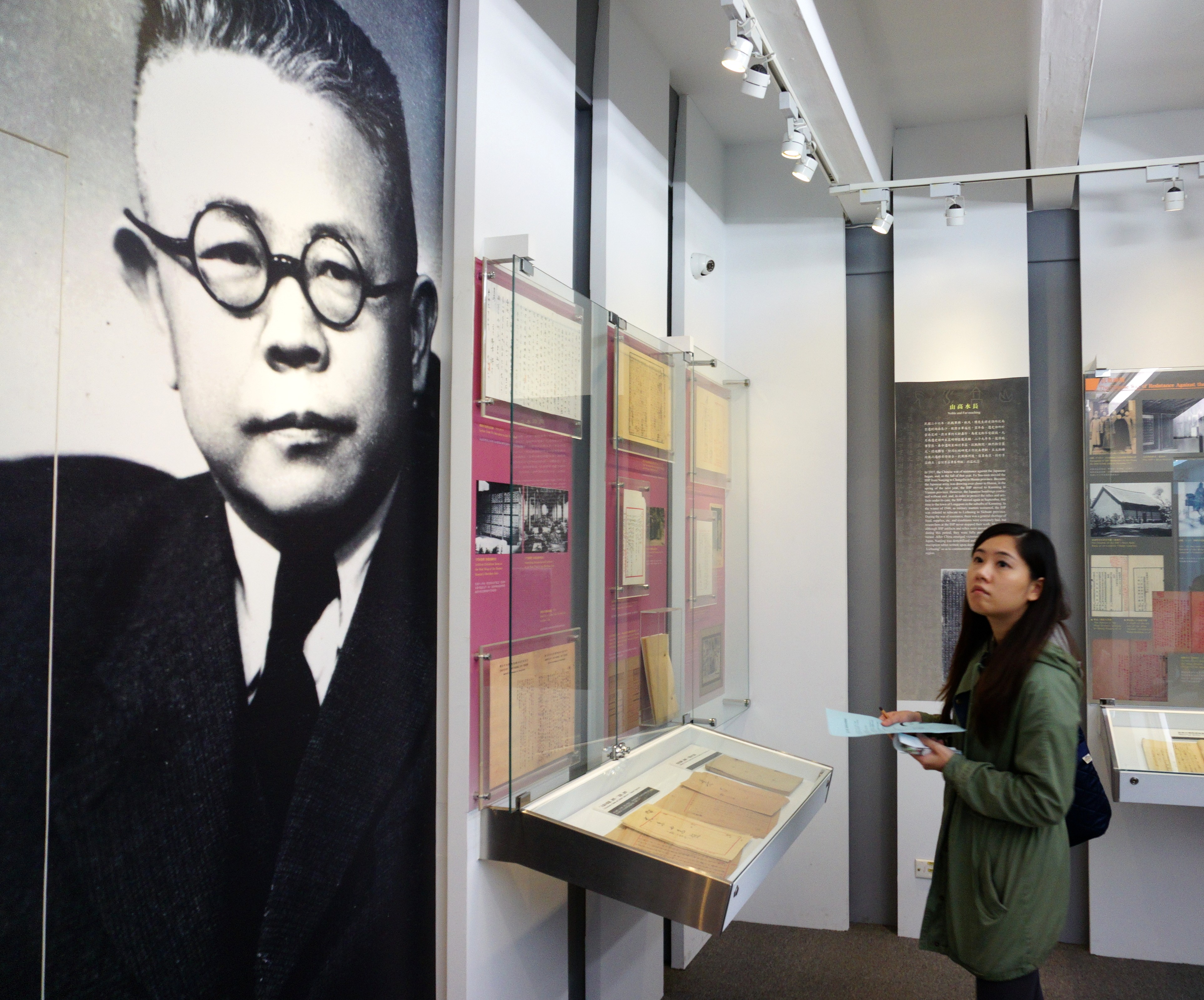 Fu Ssu-nien memorial hall.